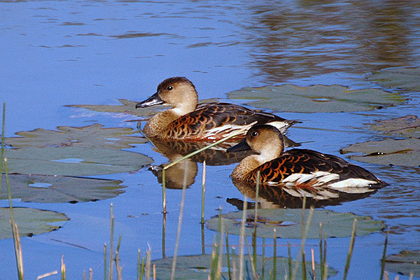 Wandering Whistling-Duck (Dendrocygna arcuata). Possibly Western Australia, possibly not.